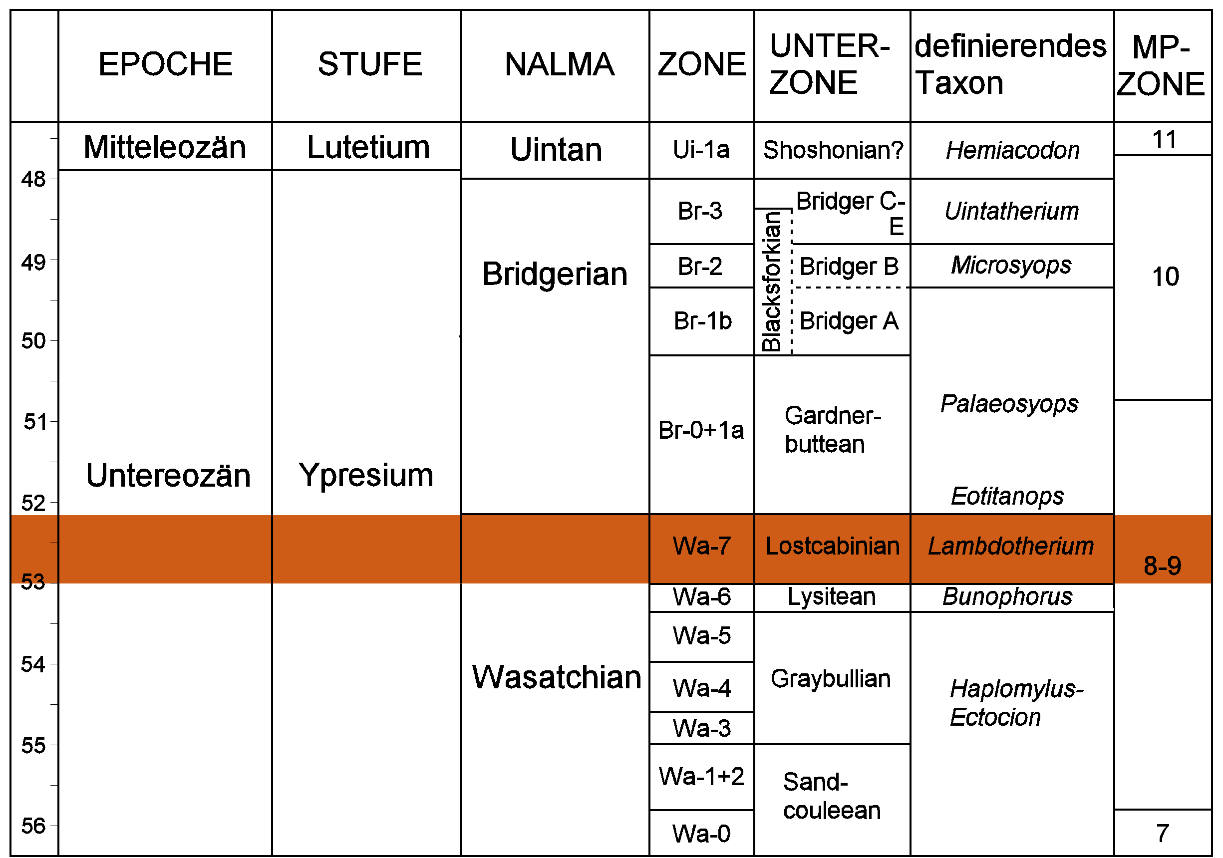 NALMA-Stratigraphy of the Lower Eocene and Position of FBM after: John-Paul Zonneveld, Gregg F. Gunnell and William S. Bartel: Early Eocene fossil vertebrates from the Southwestern Green River Basin, Lincoln and Uinta Counties, Wyoming. Journal of Vertebrate Paleontology 20 (2), 2000, pp. 369-386 and W. C. Clyde, N. D. Sheldon, P. L. Koch, Gregg F. Gunnell and William S. Bartels: Linking the Wasatchian/Bridgerian boundary to the Cenozoic Global Climate Optimum: new magnetostratigraphic and isotopic results from South Pass, Wyoming. Palaeogeography, Palaeoclimatology, Palaeoecology 167, 2001, pp. 175–199